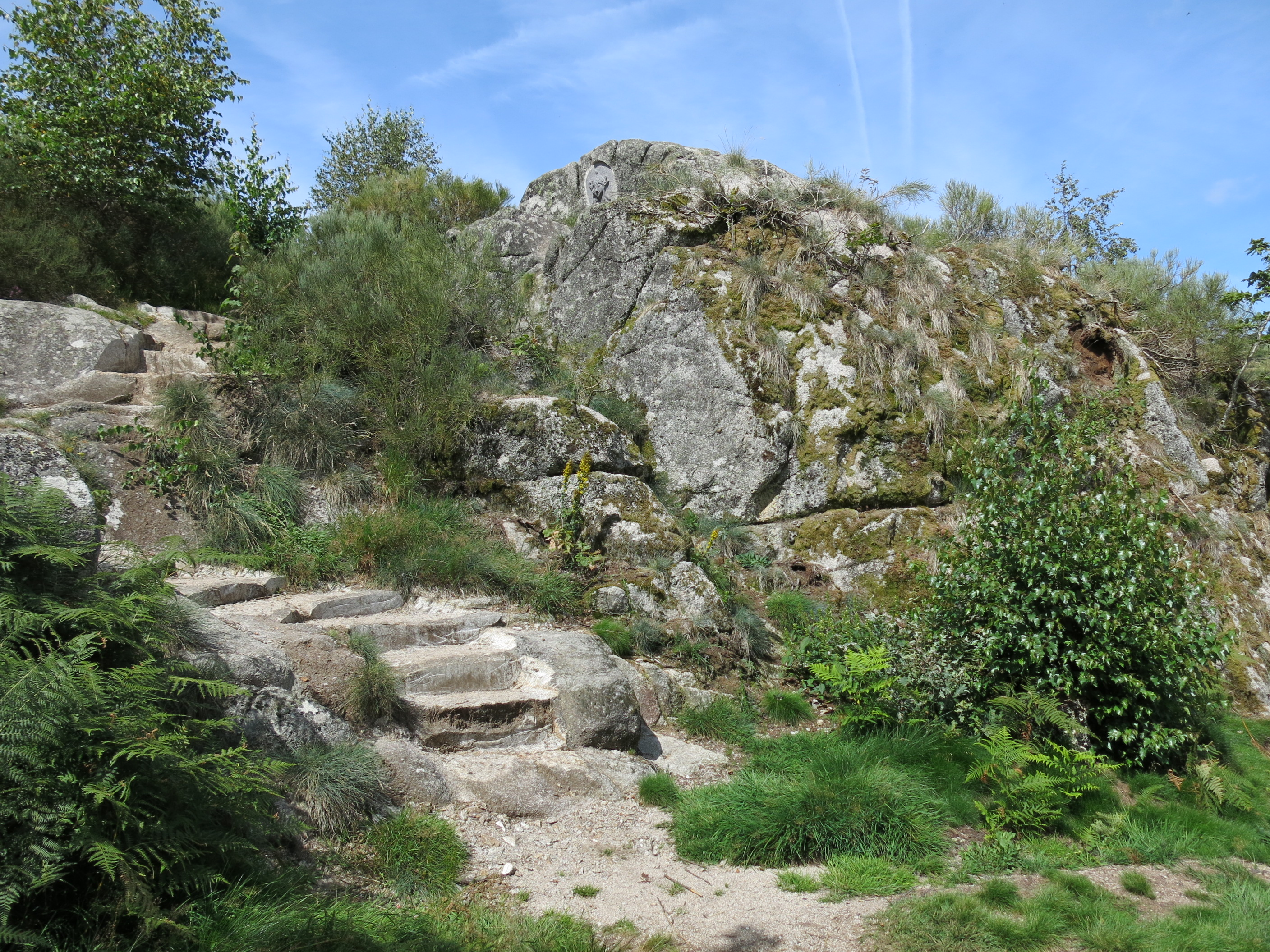 The small height (900m) of la Roche des Fées (=Rock of the fairies) between la Bourboule and Murat-le-Quaire (Puy-de-Dôme, France).